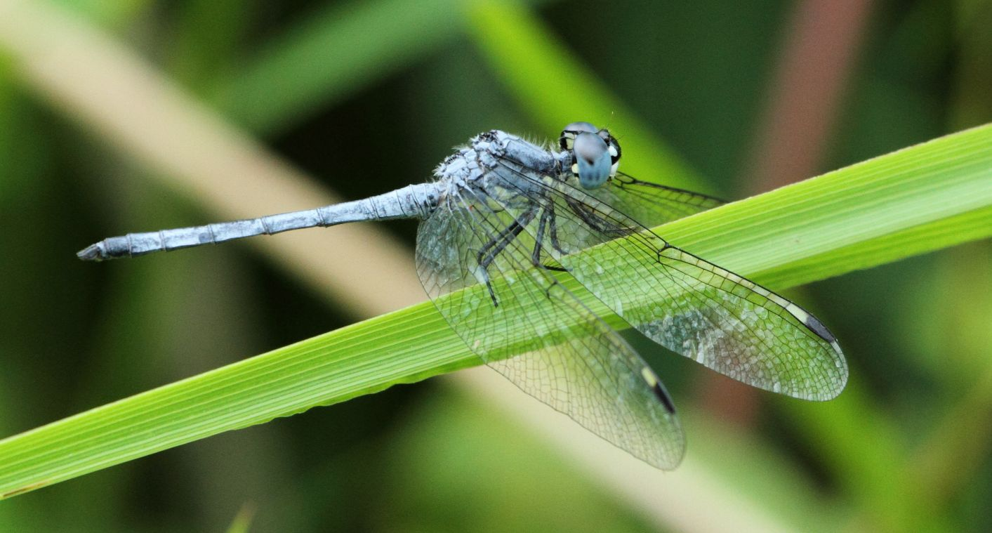 Male African Piedspot Hemistigma albipunctum at Umlalazi Resort, KwaZulu-Natal. OdonataMAP record no. 2236